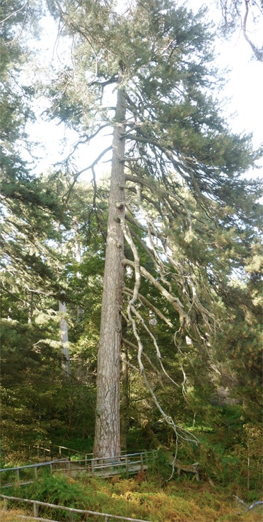 Pinus nigra ssp. Lario, at Sila National Park in Calabria - Italy.